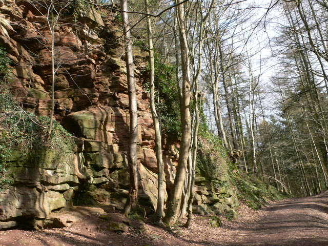 Red Rocks, Wepre Park Hard sandstone (or millstone grit) outcrop in Wepre Park. This was the stone used to construct Ewloe Castle at the southern end of the woodland. This is red sandstone, typical of many sandstone outcrops in this area, the red colour caused by oxidised iron. They are an indication of possible coal seams lower down, and Wepre Park has many small surface pits which were dug by hand.